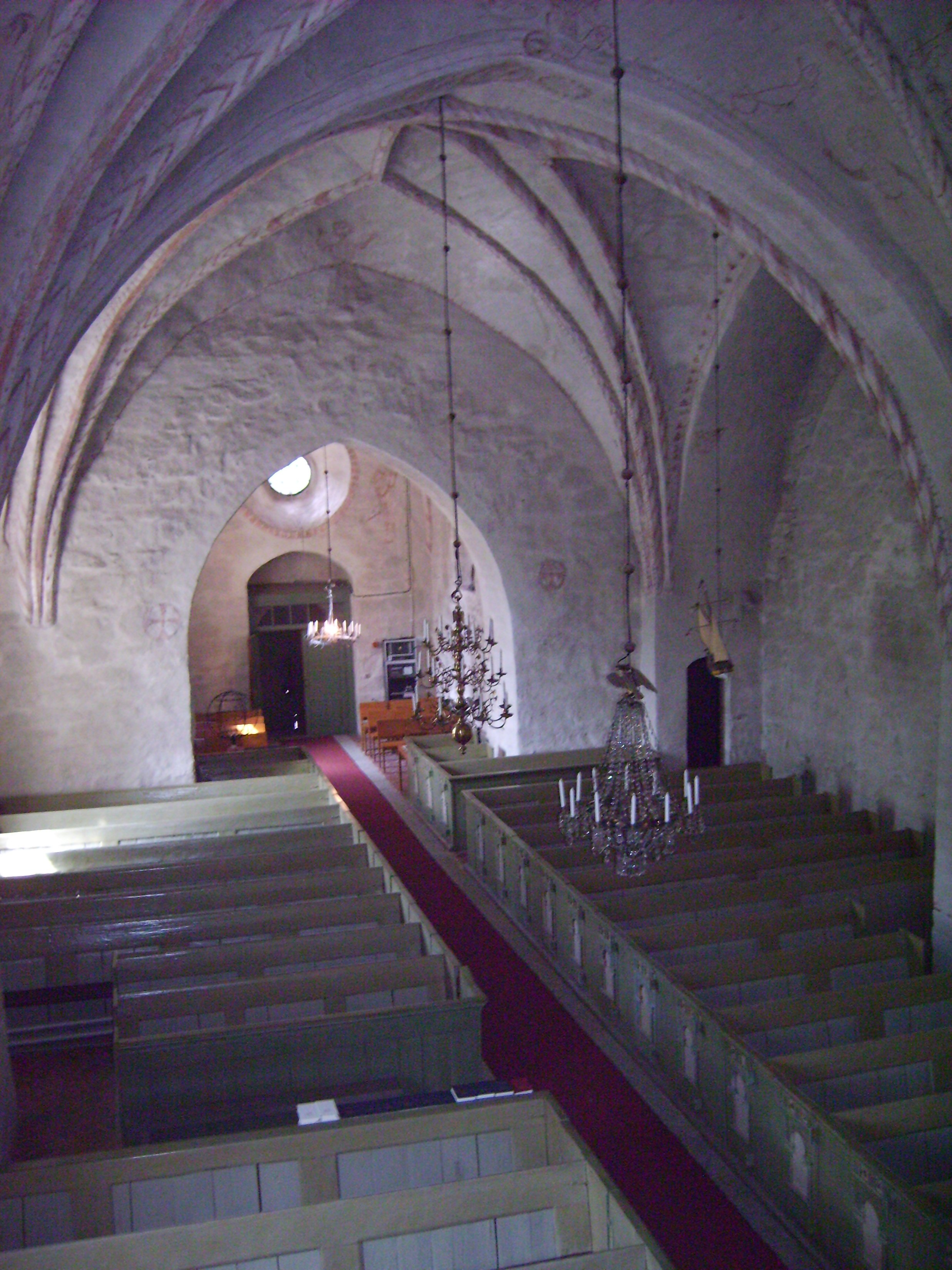 Interior of the medieval church in Korpo, Finland